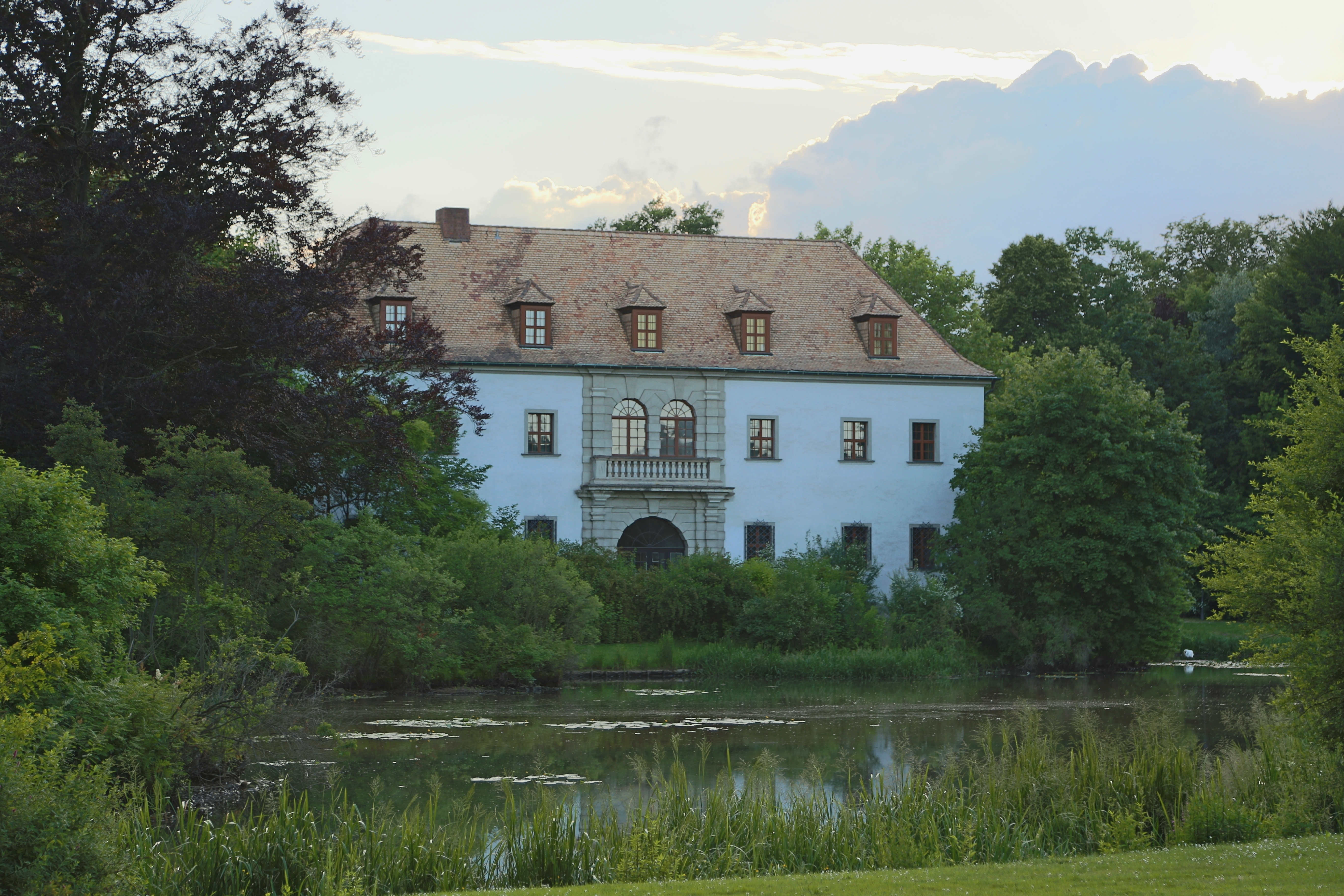 The Old Castle (Altes Schloss), part of Muskau Park (Fürst-Pückler-Park/Park Mużakowski) in Bad Muskau, Landkreis Görlitz, Saxony, Germany.